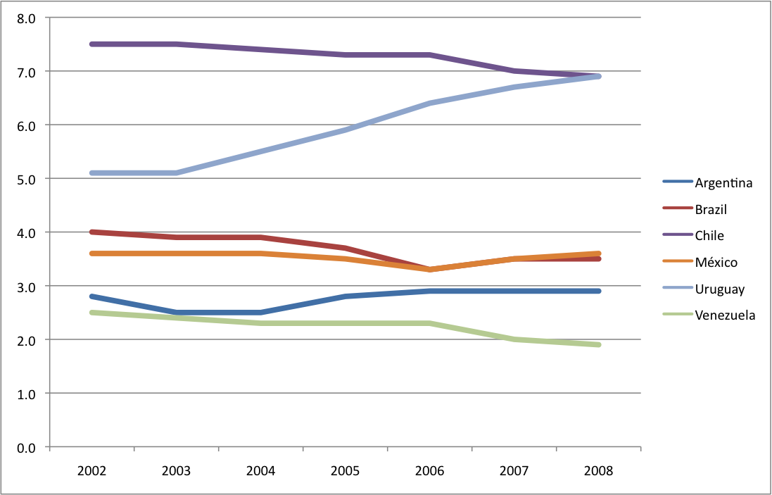 The graph shows the performance of some Latin American countries in the Corruption Perceptions Index elaborated by Transparency International between 2002 and 2008.